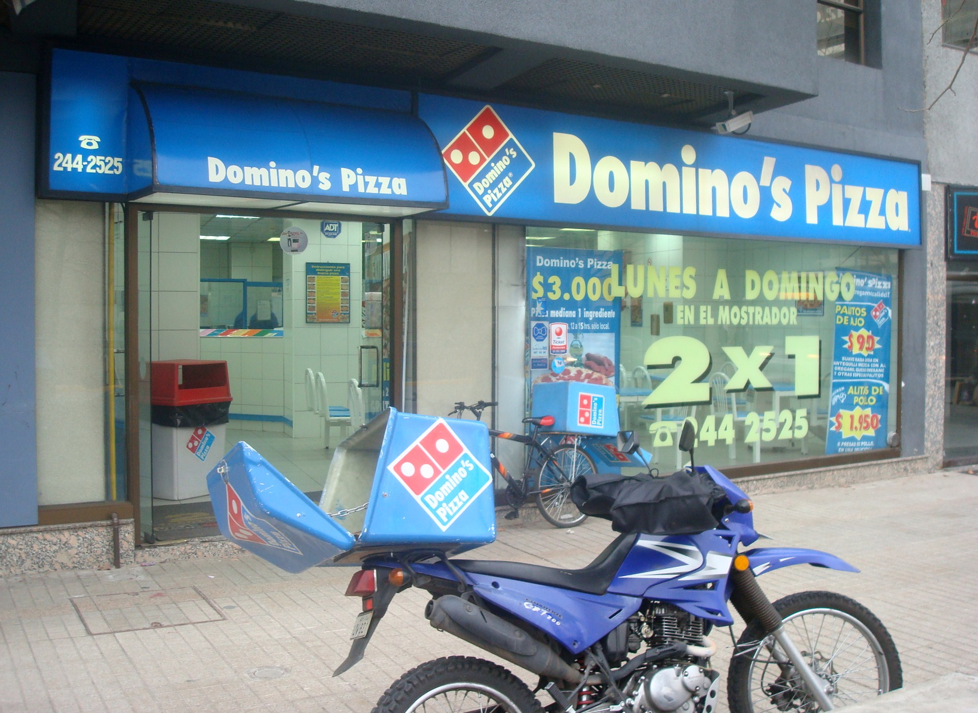 Domino's Pizza in Providencia, Santiago de Chile